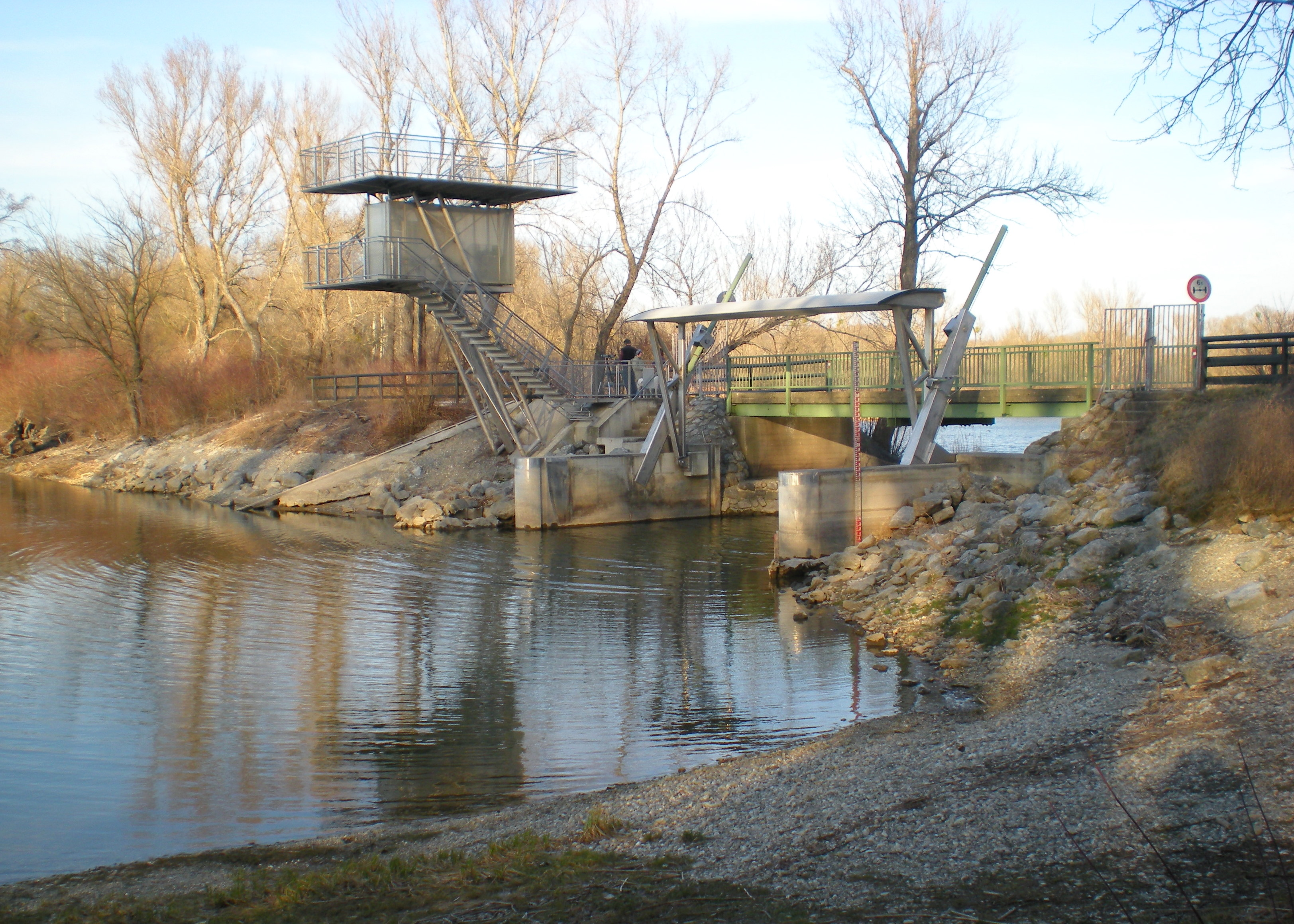 A weir in Gaenshaufentraverse dam meant to regulate the water level in Untere Lobau, Nationalpark Donau-Auen (i.e. Danube Floodplain National Park), Austria